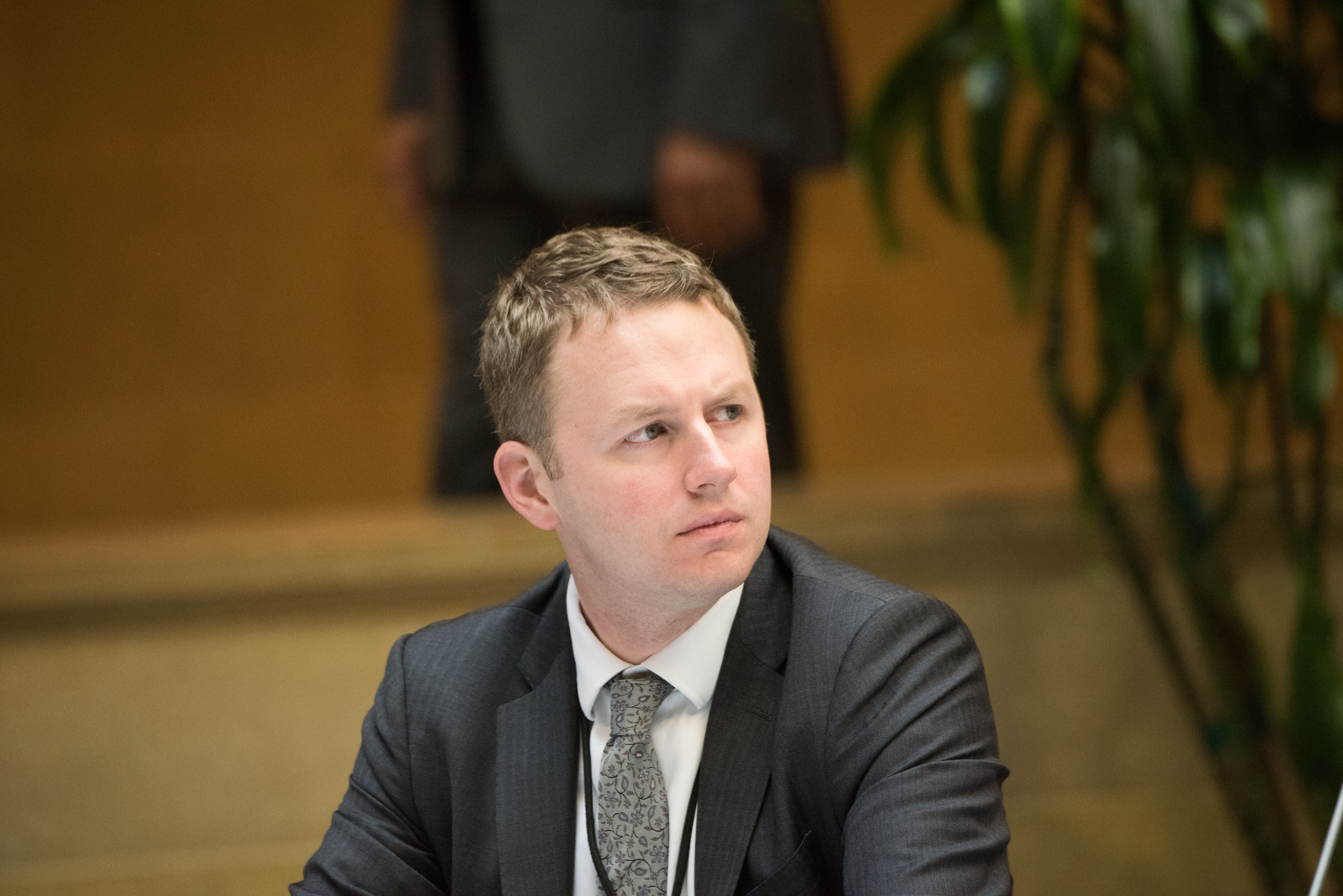 Deputy Assistant to the President for Domestic Policy and Director of Budget Policy Paul Winfree makes remarks at the Inaugural Agriculture and Rural Prosperity Task Force Meeting to determine what must be done to promote agriculture and economic development, and quality of life in rural America, in Washington, D.C., on June 15, 2017. USDA photo by Lance Cheung.